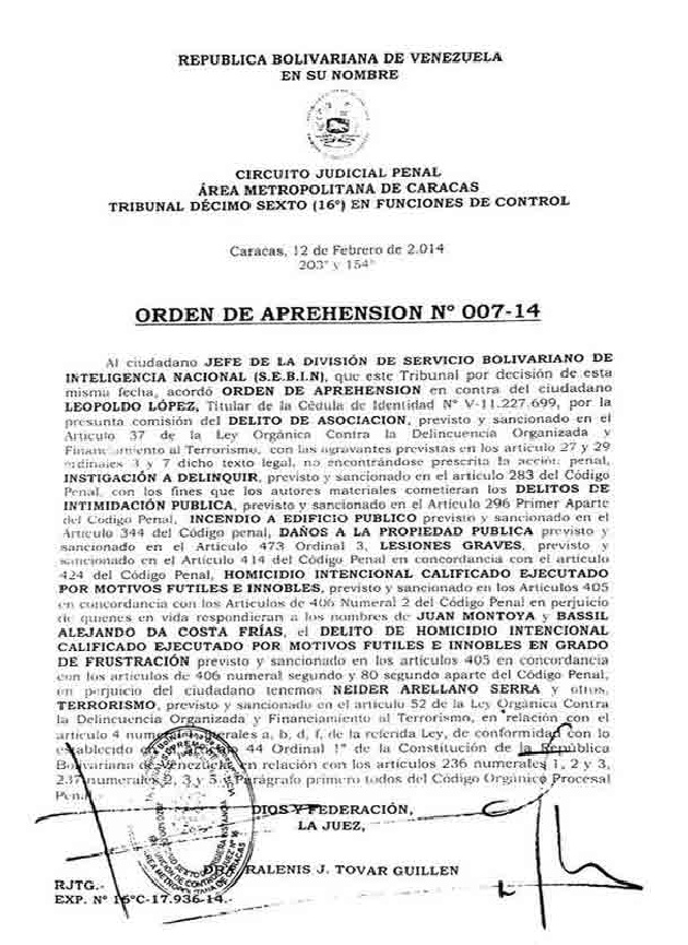 Opposition leader Leopoldo López apprehension's order. Leopoldo was accused of many crimes, including "Public intimidation, public property damages, serious injuries and qualified intentional homicide executed by futile and ignoble motives."